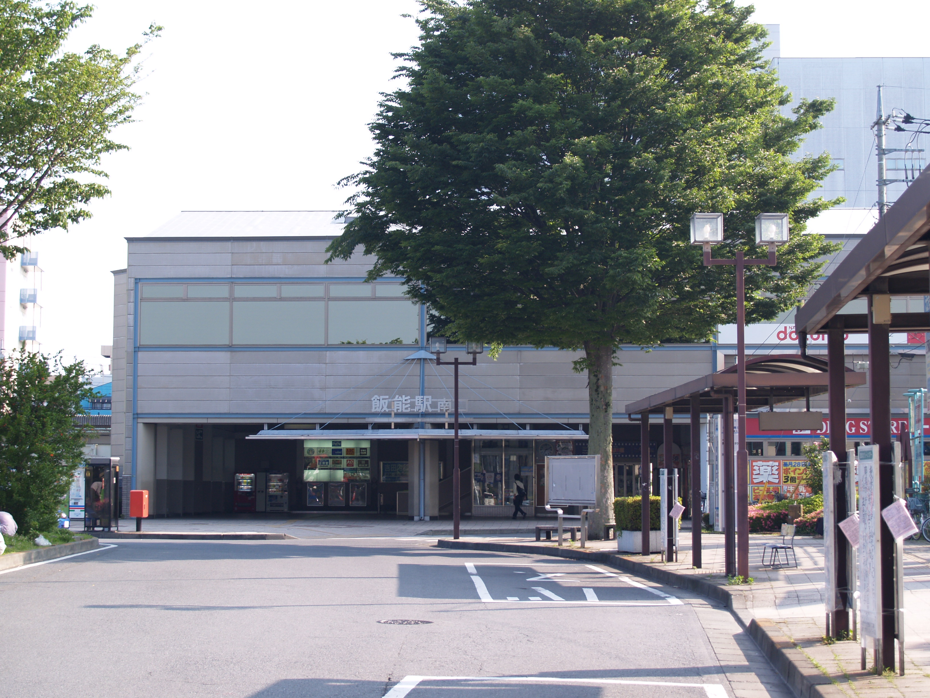 South exit of Hanno Station on the Seibu Ikebukuro Line